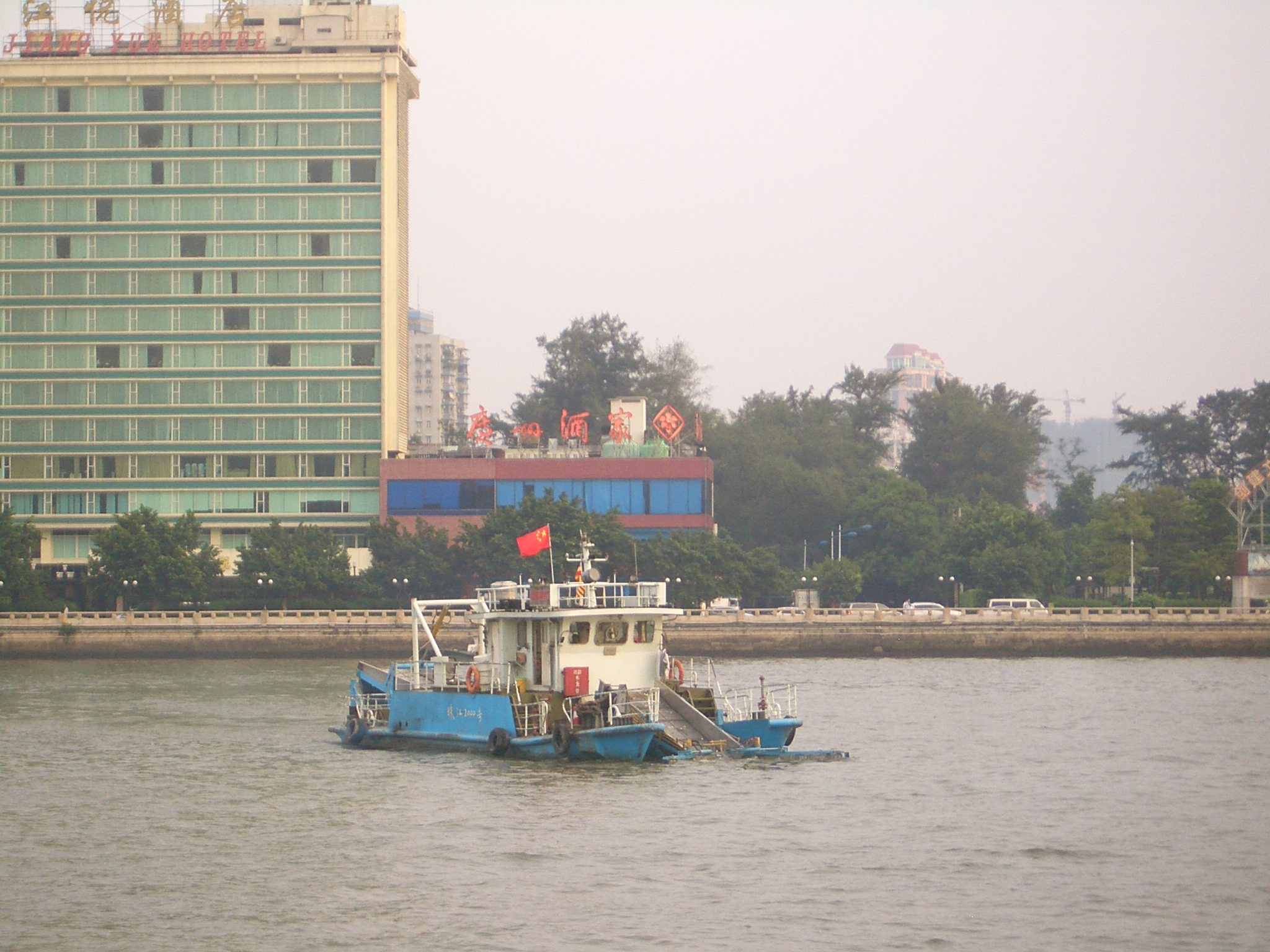 A boat picks floating garbage from the Pearl River in Guangzhou. Picture is taken looking south from Shamian Islan.